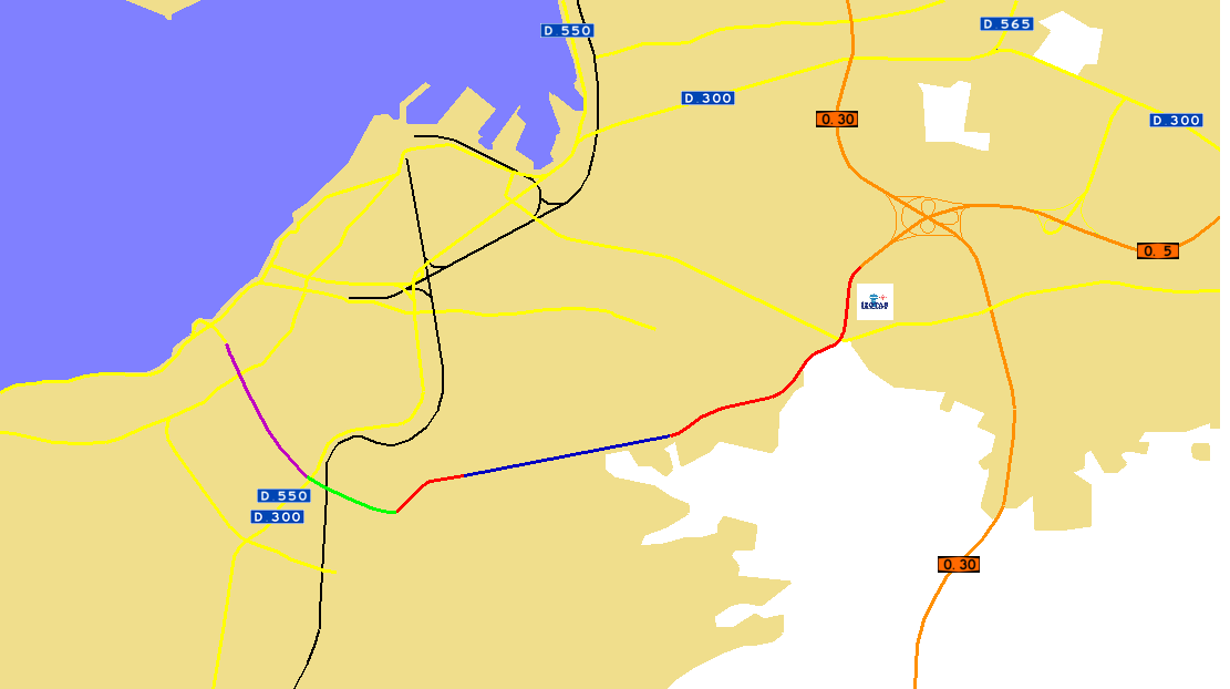 The planned route of Homeros Boulevard in Izmir, Turkey. Orange lines represent motorways Yellow lines represent main thoroughfares Purple is the Konak Tunnel Blue is the Buca-Bornova Tunnel Green is the opened section of Homeros Blvd. Red is the under construction section of Homeros Blvd. Black lines represent railways. The White/Blue logo is the Izmir Coach Terminal.